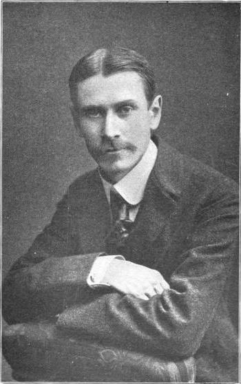 Photograph of American novelist and playwright, Robert Neilson Stephens (1867-1906)